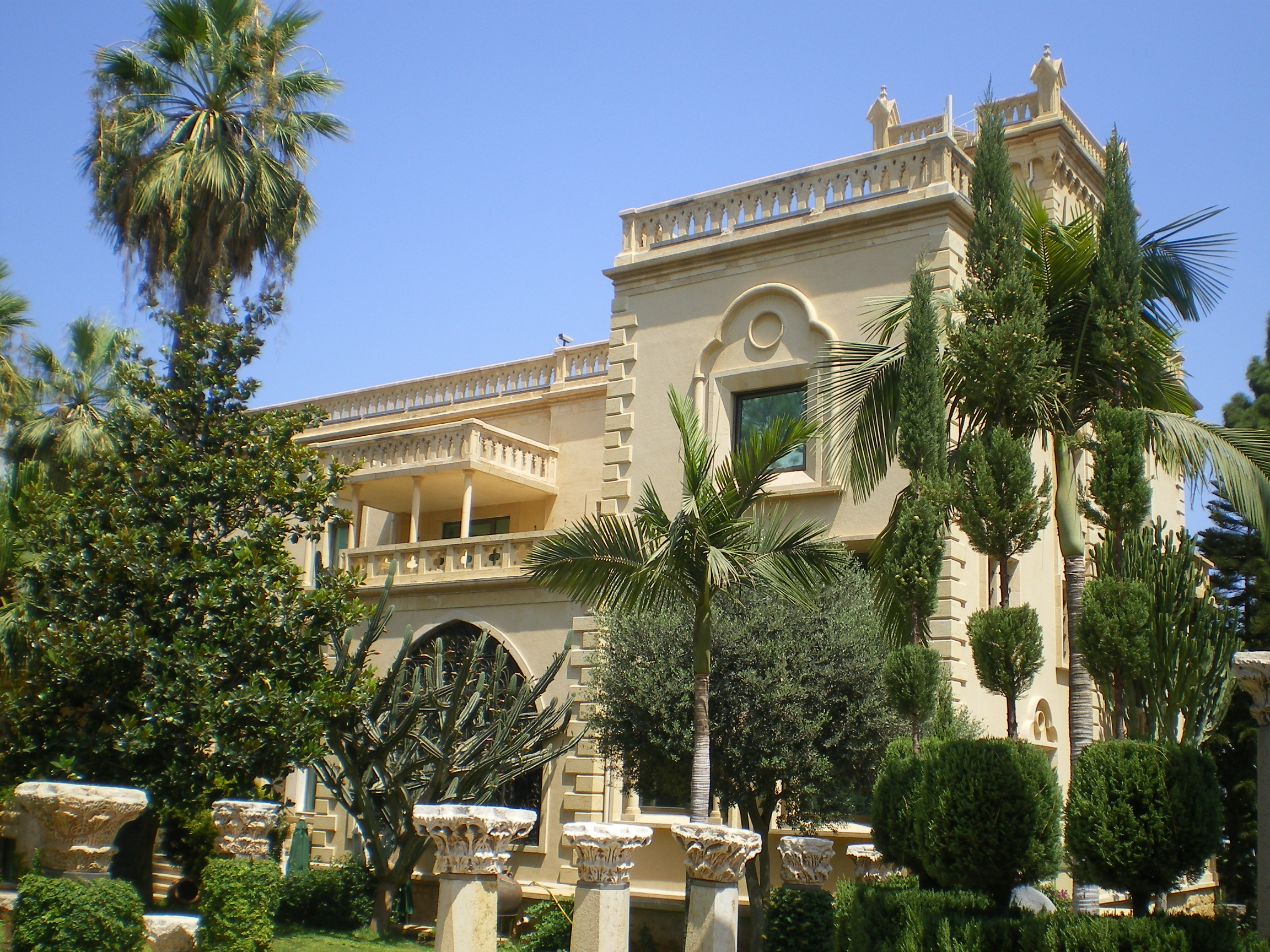 Exterior of the Robert Mouawad Museum in Beirut, former home of Henry Pharoun